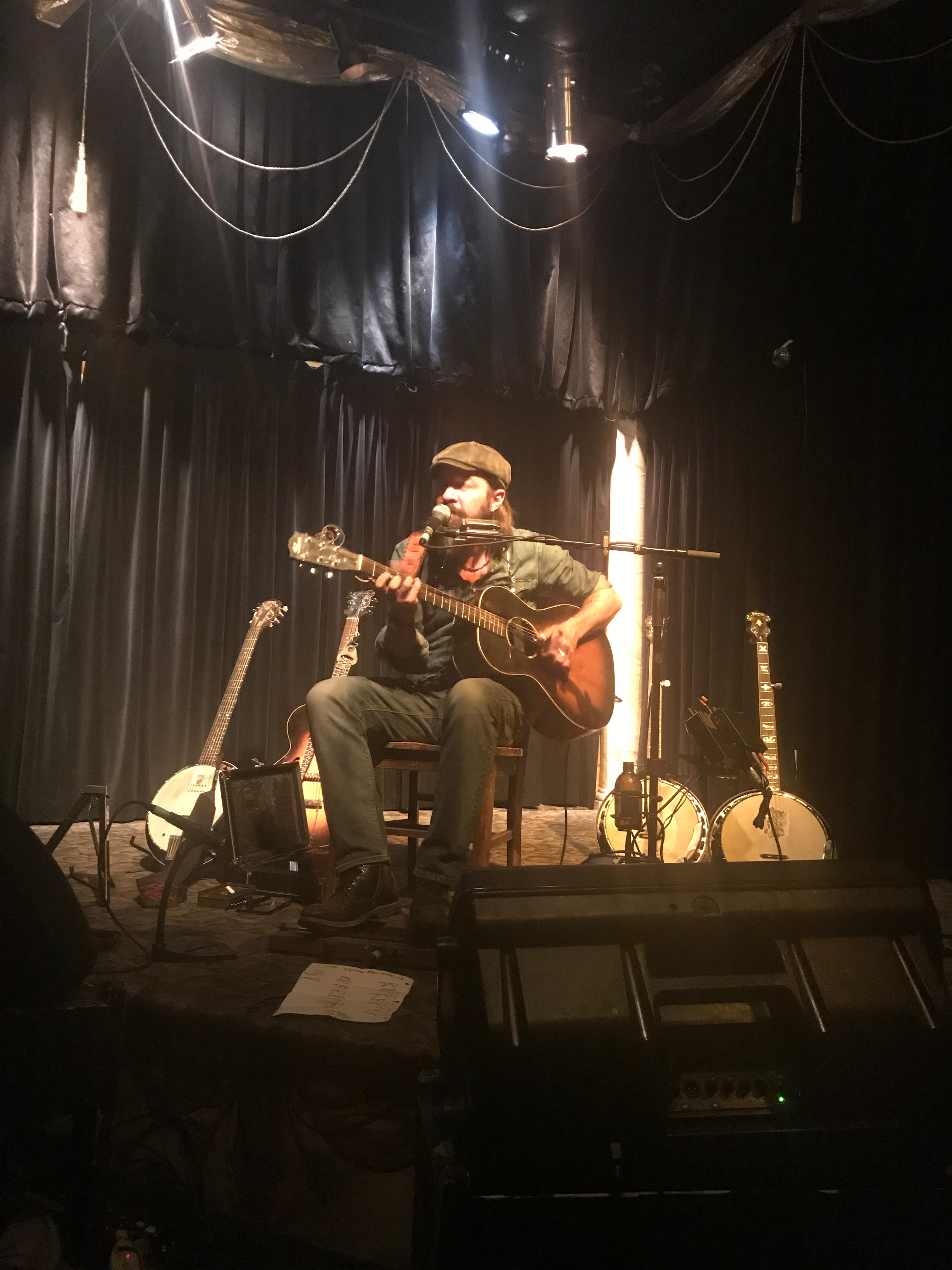 Jalan Crossland at Avogadro’s Number in Fort Collins, Colorado on May 2, 2019